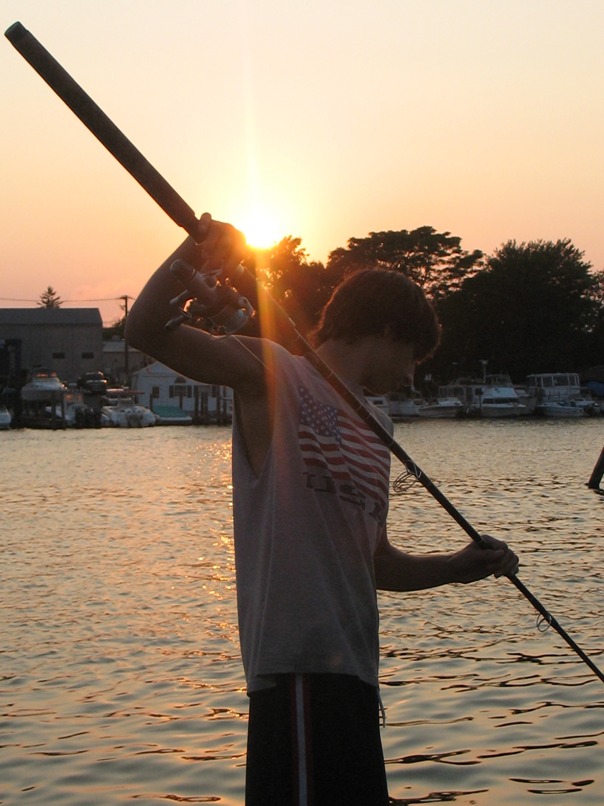 Danny Fishing on the Patchogue River... by Stevan.